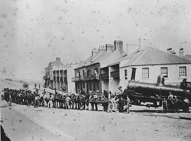 Class Z19 (A93) locomotive being delivered at Pyrmont Dated: January 1880 Digital ID: 17420-a014-a014000507 Rights: We'd love to hear from you if you use our photos. Many other photos in our collection are available to view and browse on our website using Photo Investigator.